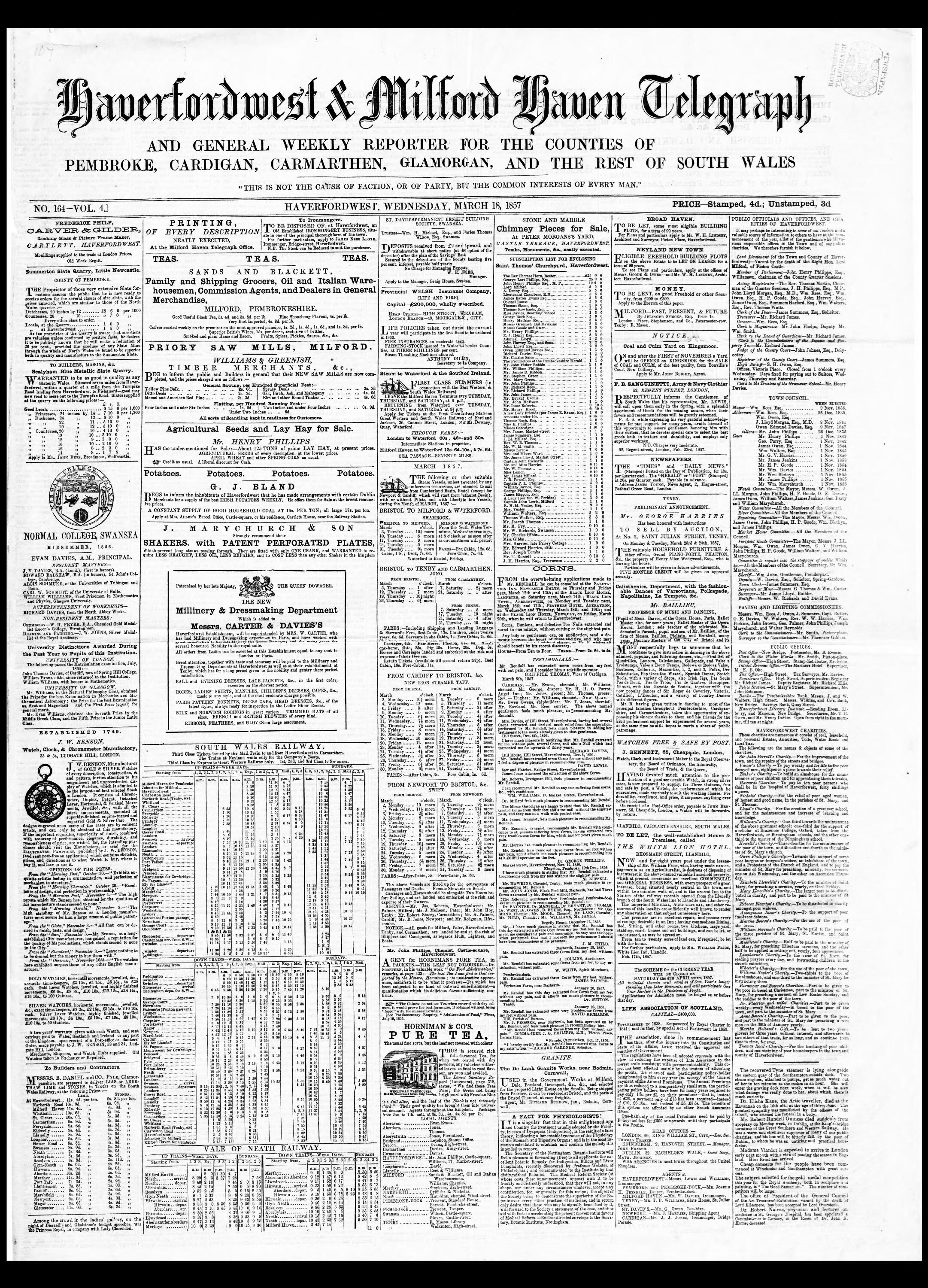 Front page of the earliest surviving copy of the Welsh newspaper Haverfordwest & Milford Haven Telegraph